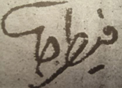 signature of Abdurauf Fitrat on a banknote of Bukharan People's republic of 1922